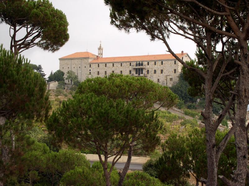 Mar Moussa monastery in Lebanon